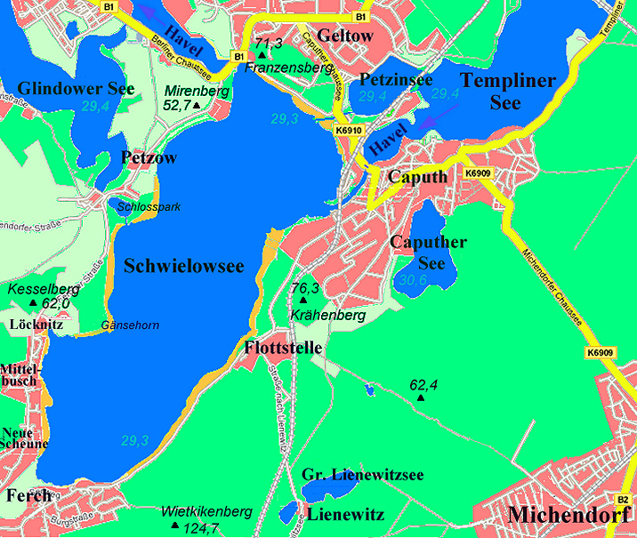 Map of the Lake "Schwielowsee" (River Havel)in Brandenburg (Germany) - Karte des Schwielowsees (Havelsee) bei Potsdam